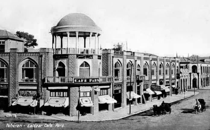 Pars Café in Lalezar Street, Tehran (1941).